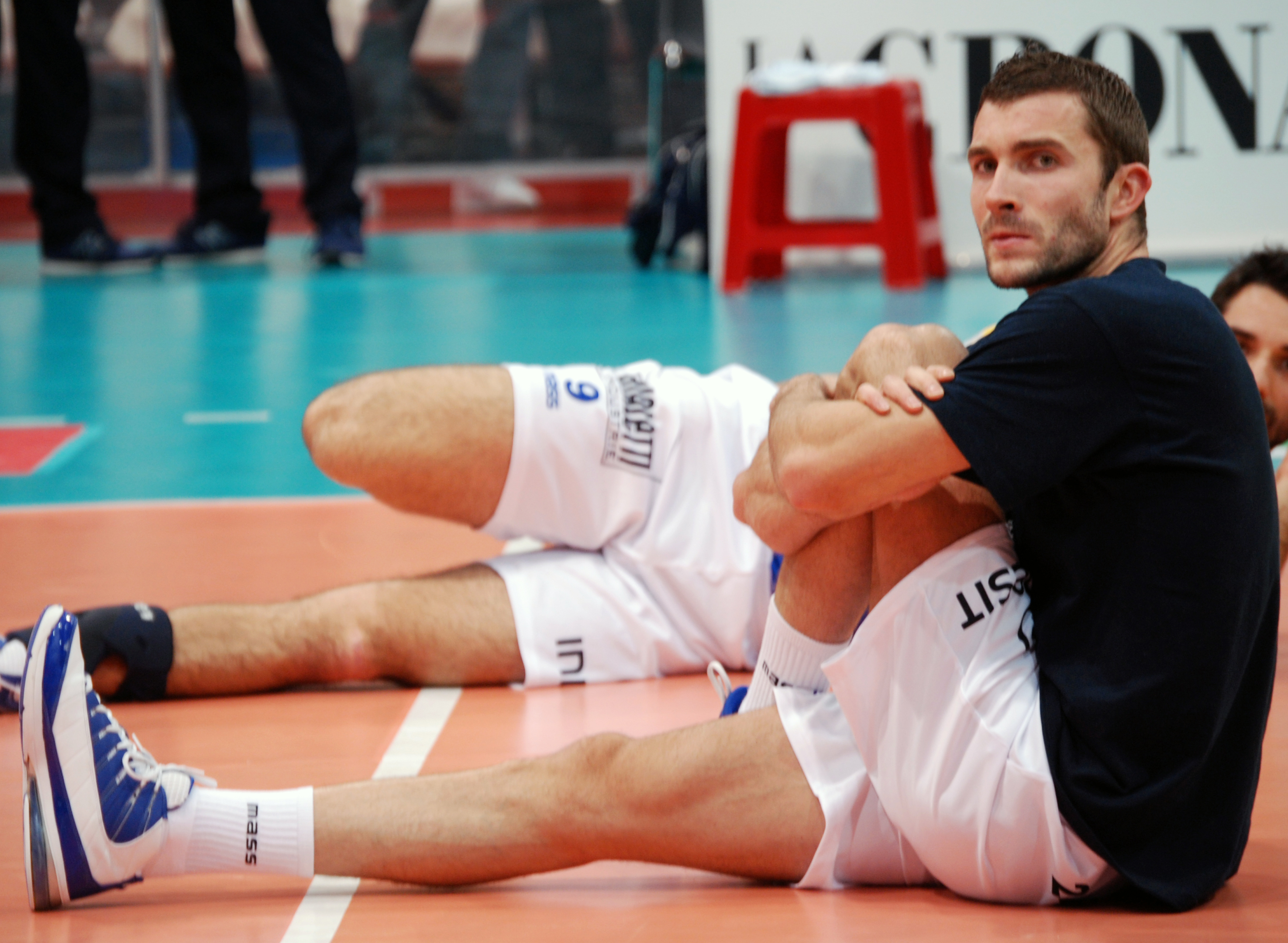 I took this pic during a volleyball match in Piacenza.